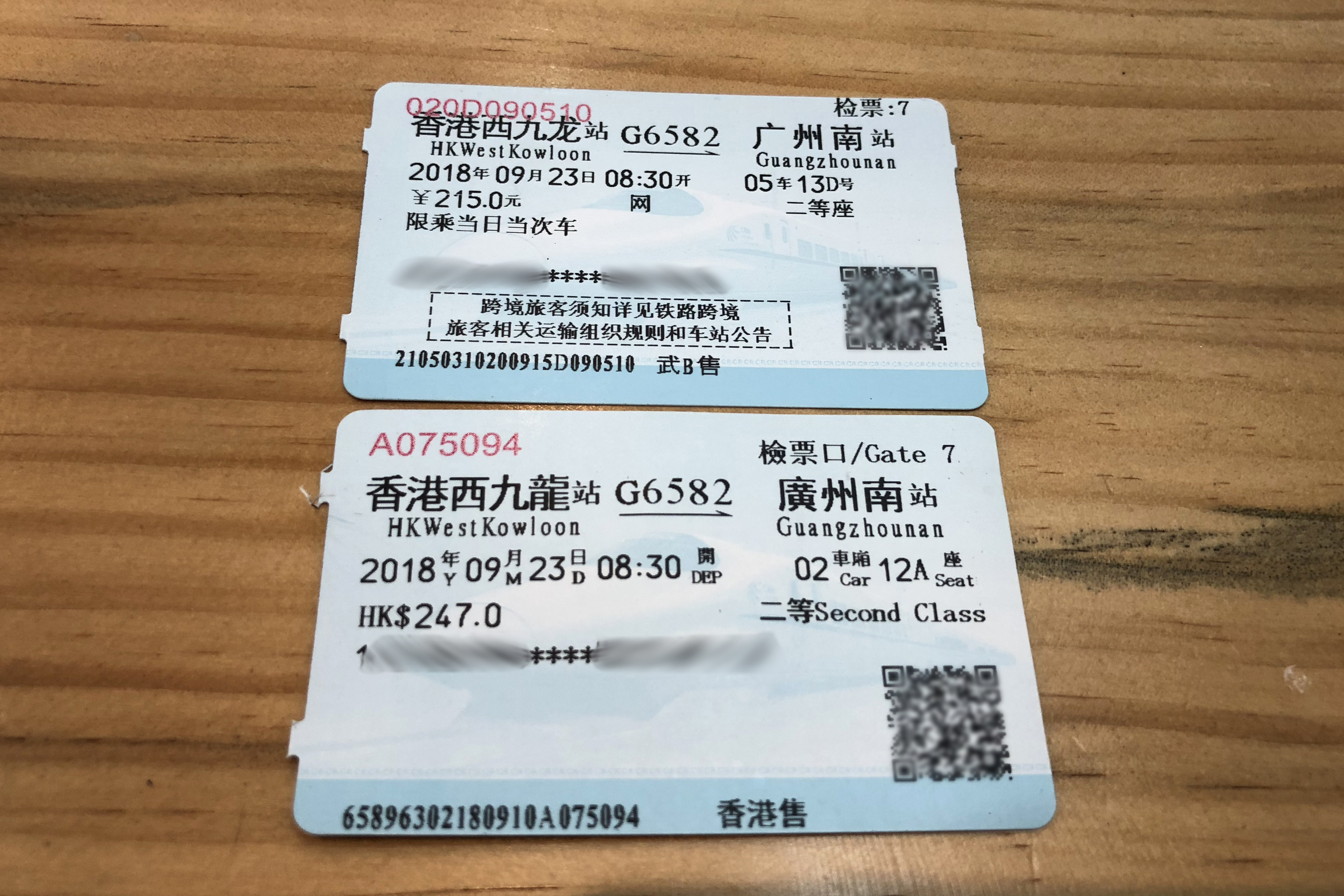 One printed in Hankou, the other printed in Hong Kong.